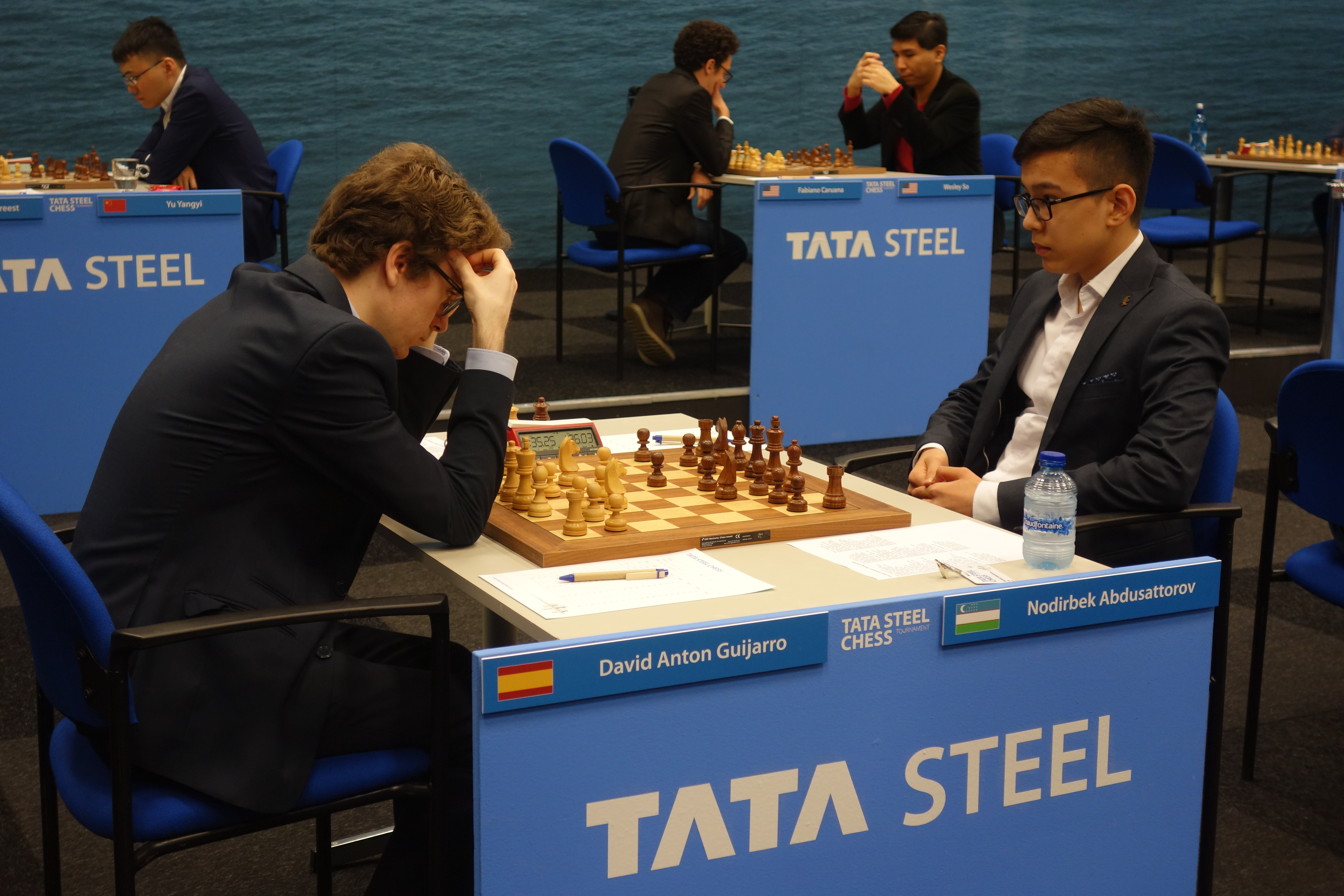 David Guijarro vs Nodirbek Abdusattorov, Tata Steel chess tournament 2020, Tata Steel chess tournament 2020